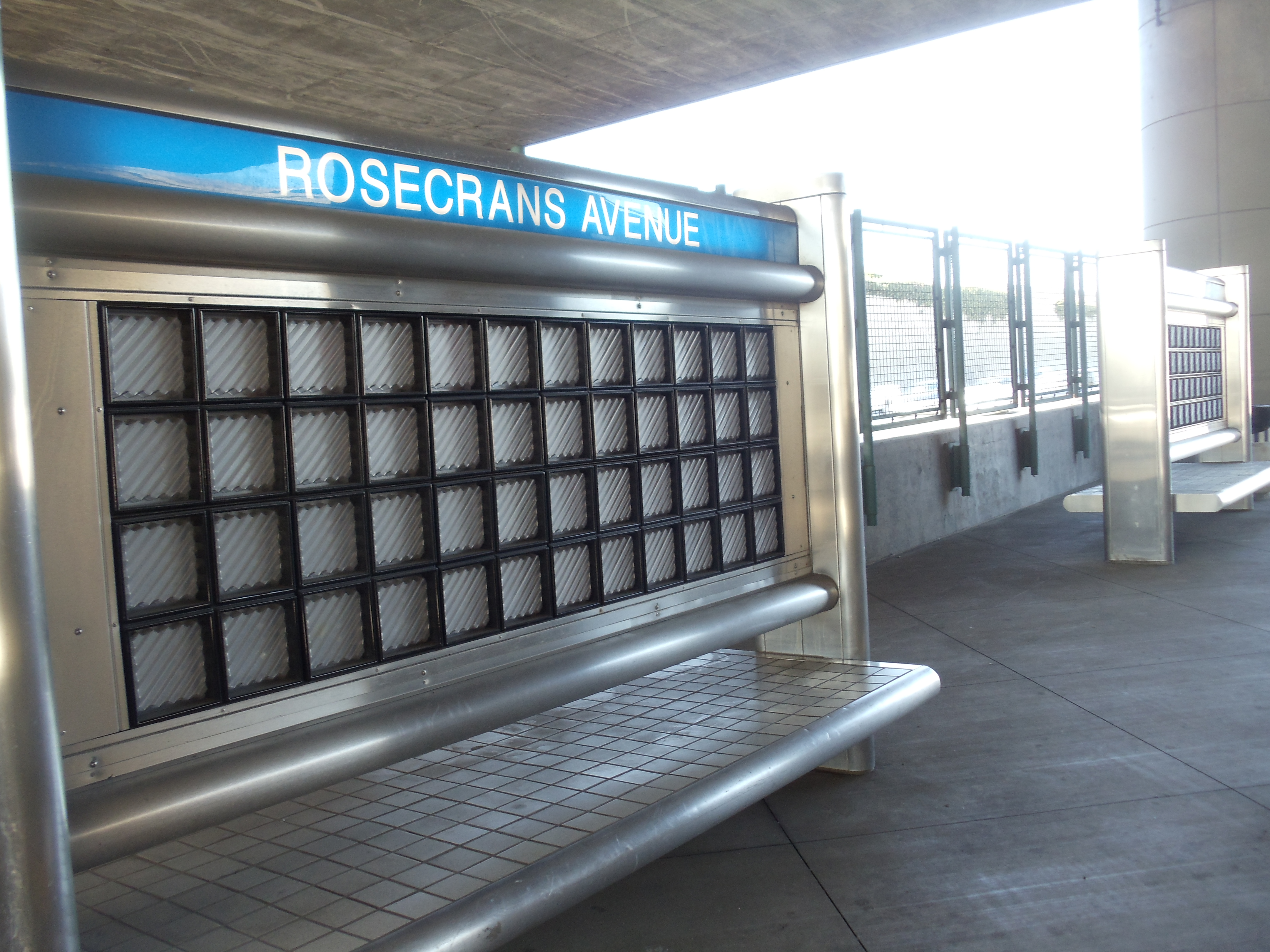 Bench on southbound platform.